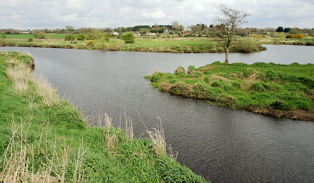 The Point of Whitecoat, Portadown. The Newry Canal is in the foreground, with the Upper Bann in the background